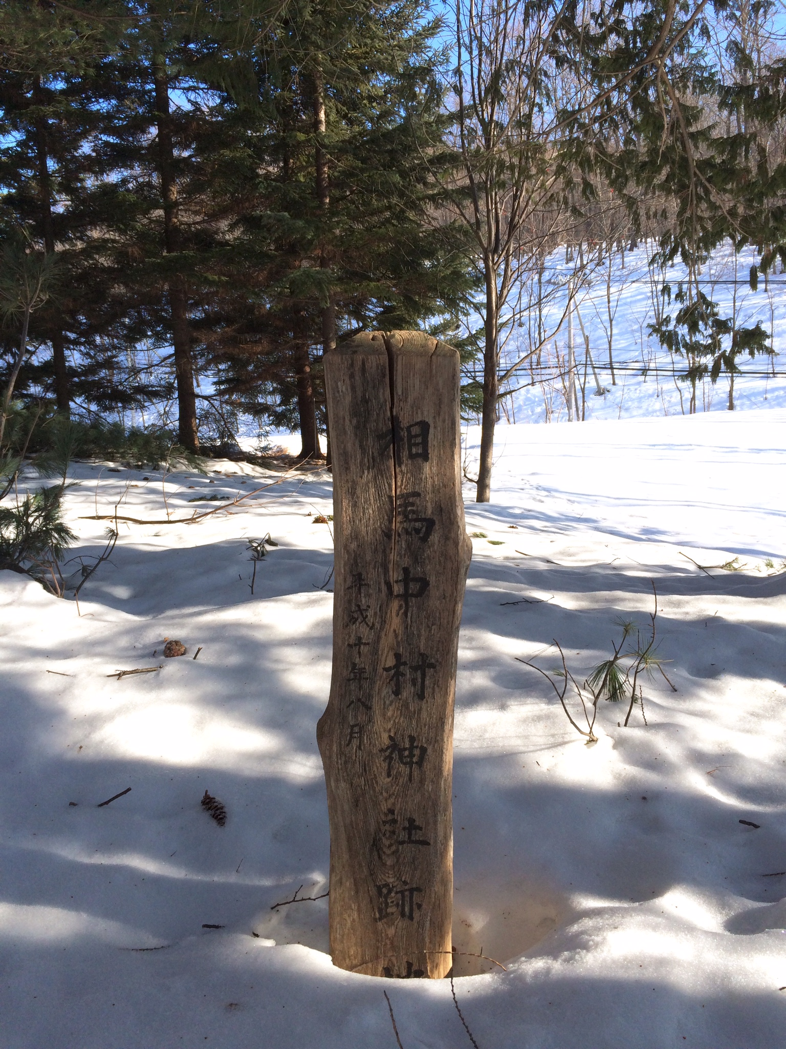 Site of Soma Nakamura Shrine (Soma-Nakamura-jinja)